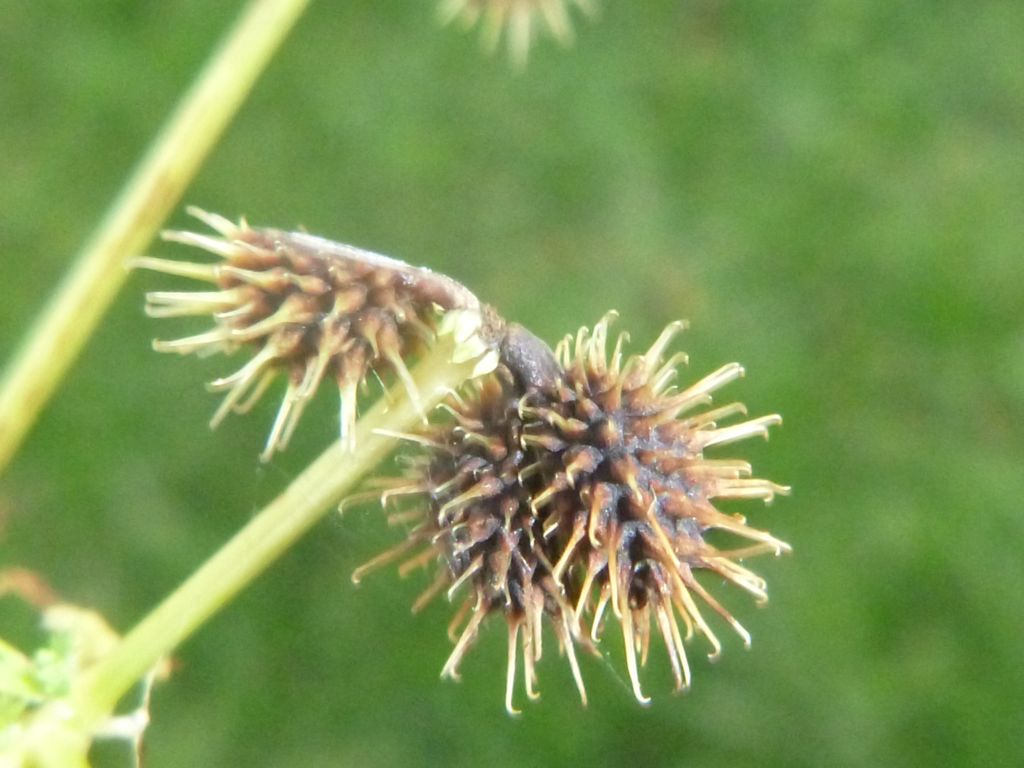 Black Snakeroot split and whole seed